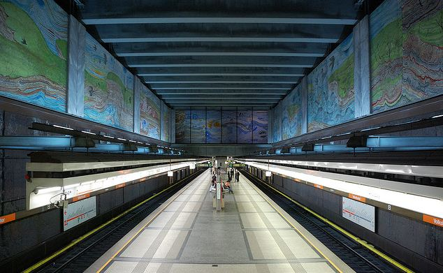 Volkstheater station